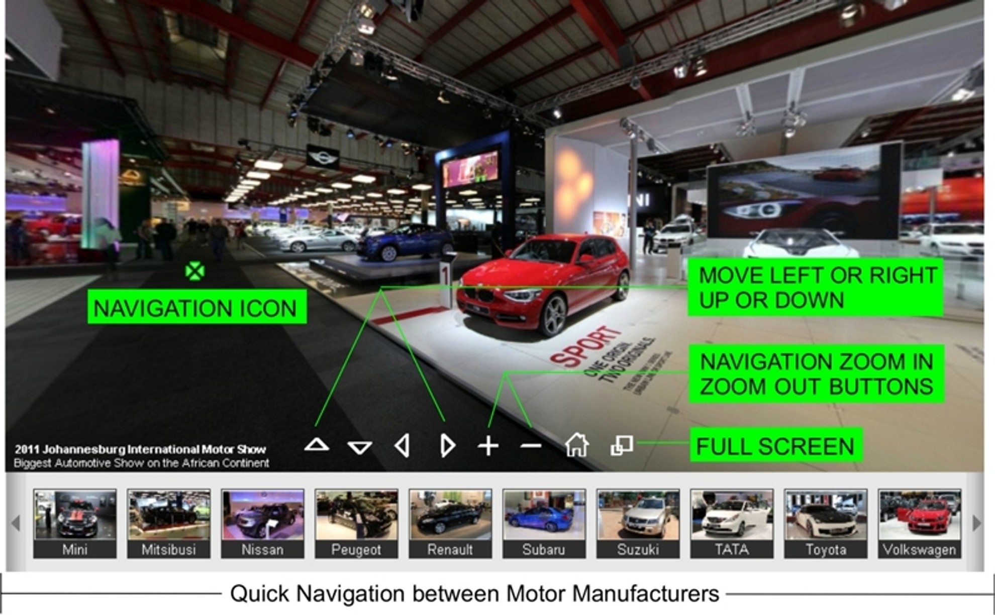 Image of the Johannesburg International Motor Show Virtual Tour which were created during the 2011 Johannesburg Motor Show. The Virtual Tour allows you to walk through the show, similar to Google Street View